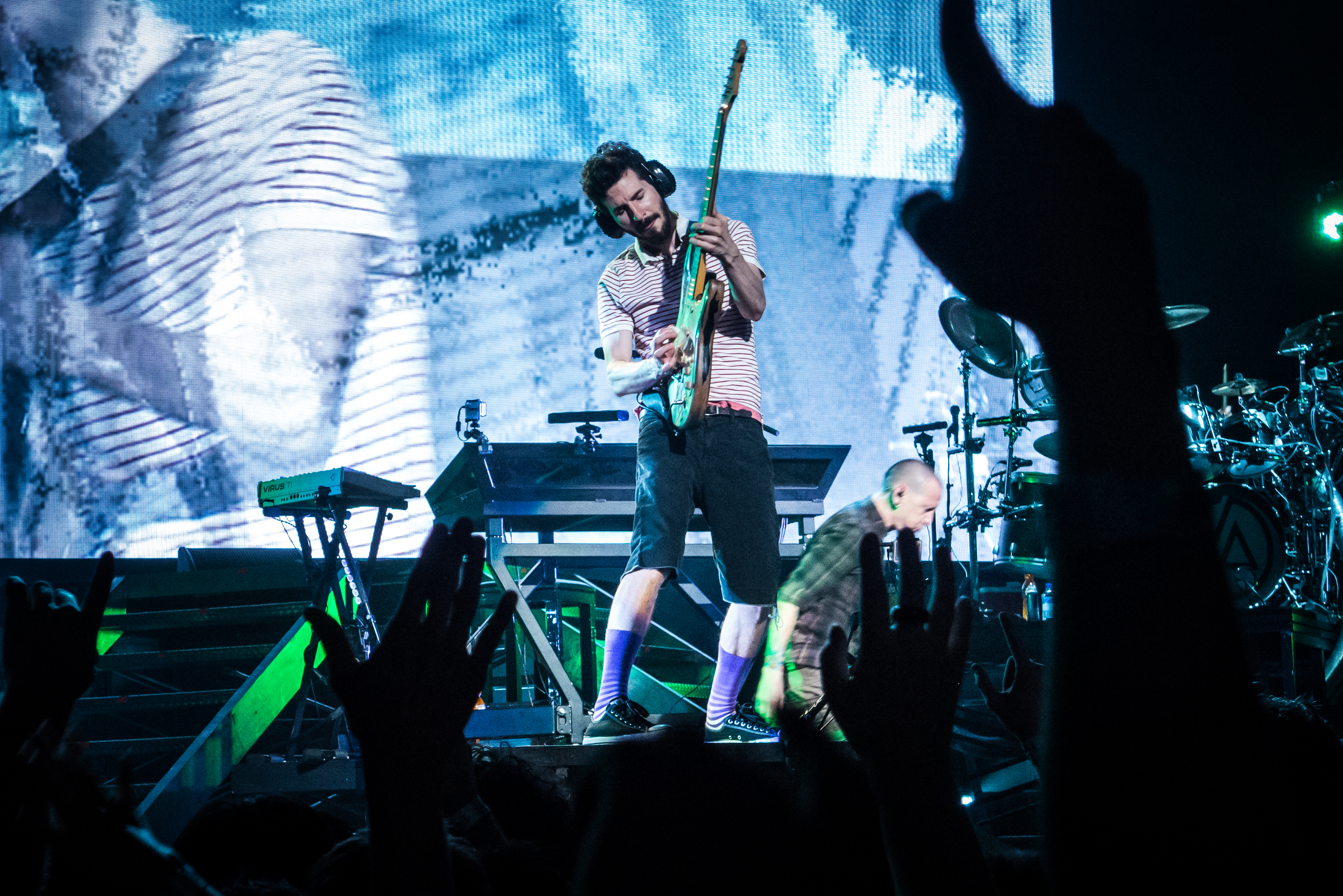 Brad Delson performing with Linkin Park at Soundwave 2013 - Rod Laver Arena, Melbourne.